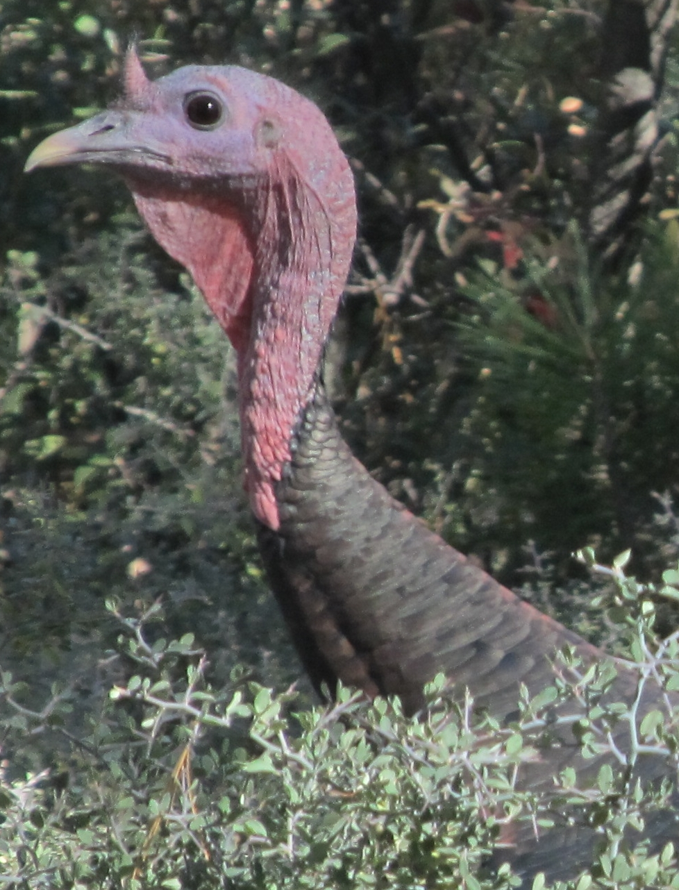 Meleagris gallopavo mexicana